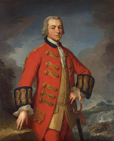 Sir Henry Clinton, British Commander in Chief during the American Revolution